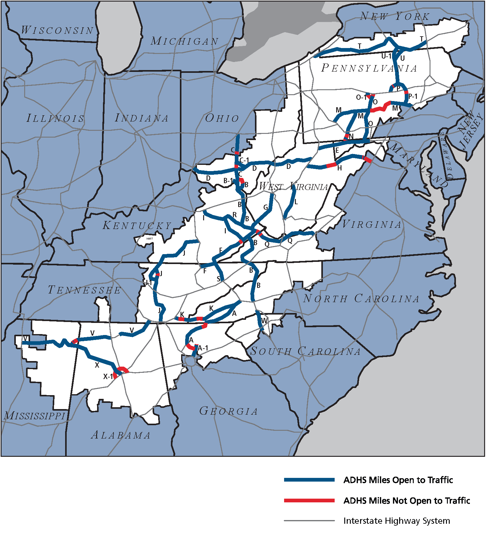 Map of the Appalachian Development Highway System as of September 30, 2016. As the original map is labeled "Source: Appalachian Regional Commission", and the ARC is an agency of the U.S. Federal Government, this is public domain.